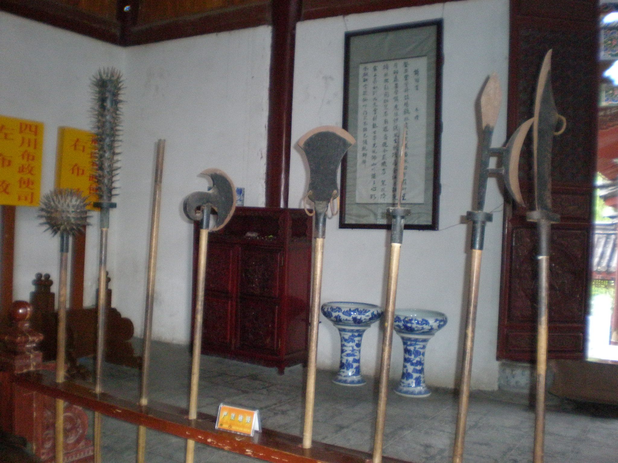 A rack of weapons in the main meeting hall of the Mu Mansion, located in the Old Town of Lijiang, Yunnan.